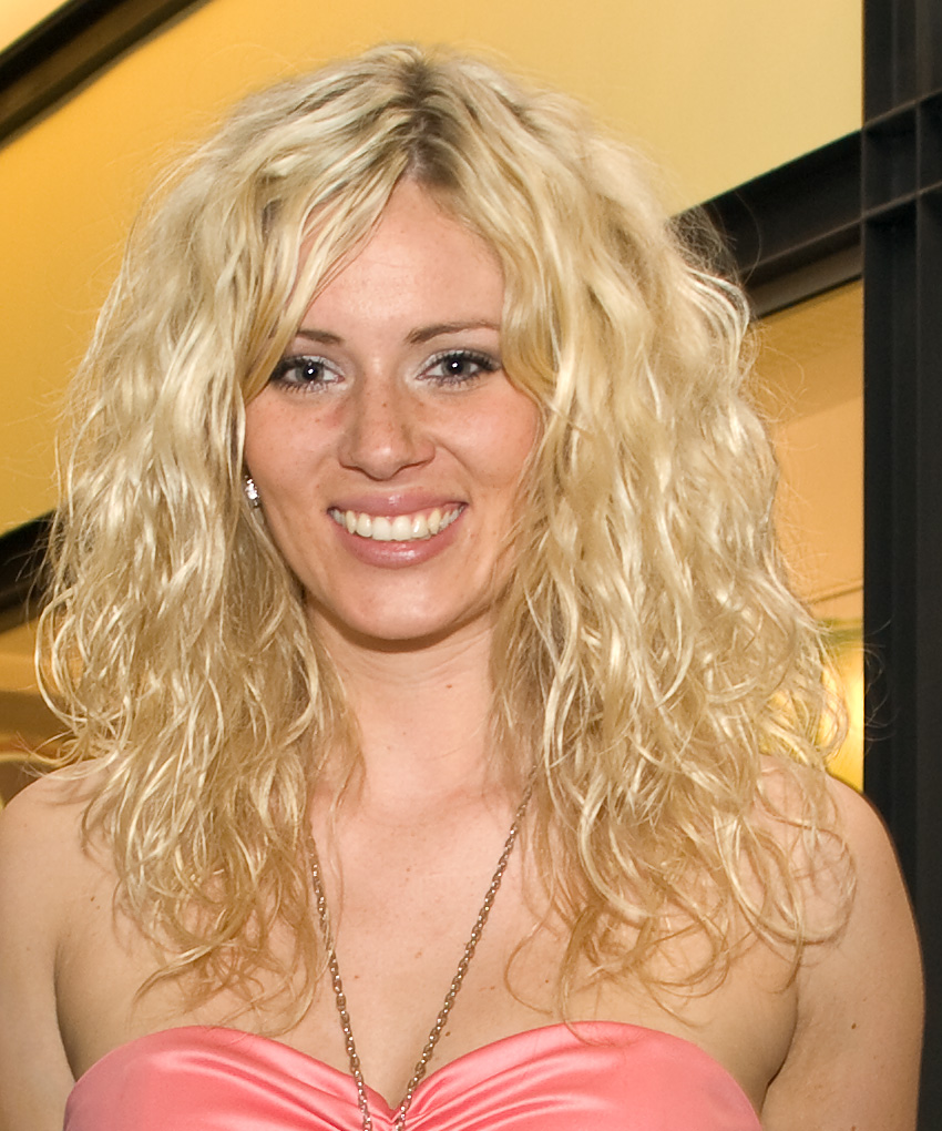 Czech model, actress and presenter Nikol Moravcová